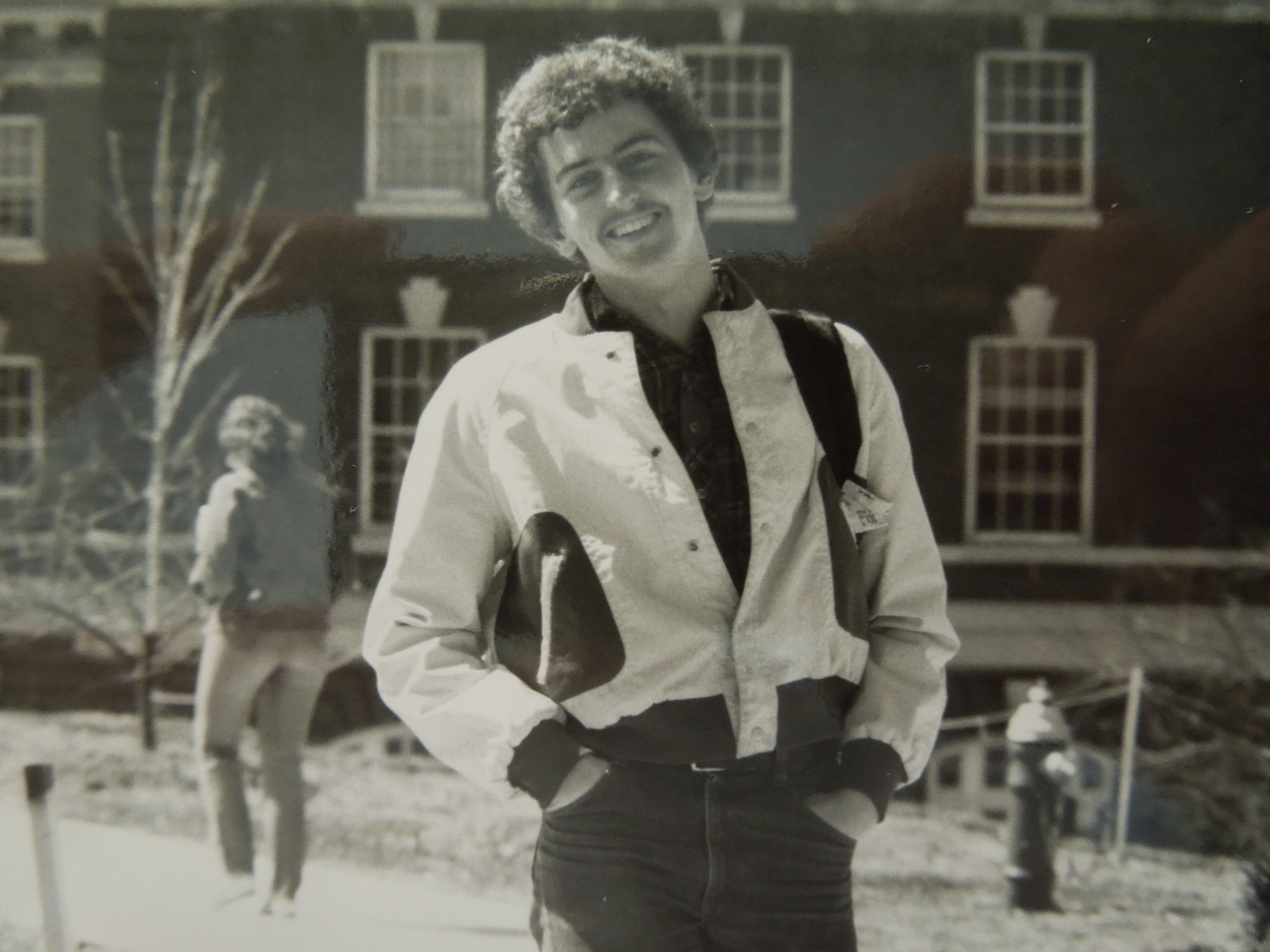 Sean O'Sullivan at Rensselaer Polytechnic Institute in the early 1980s